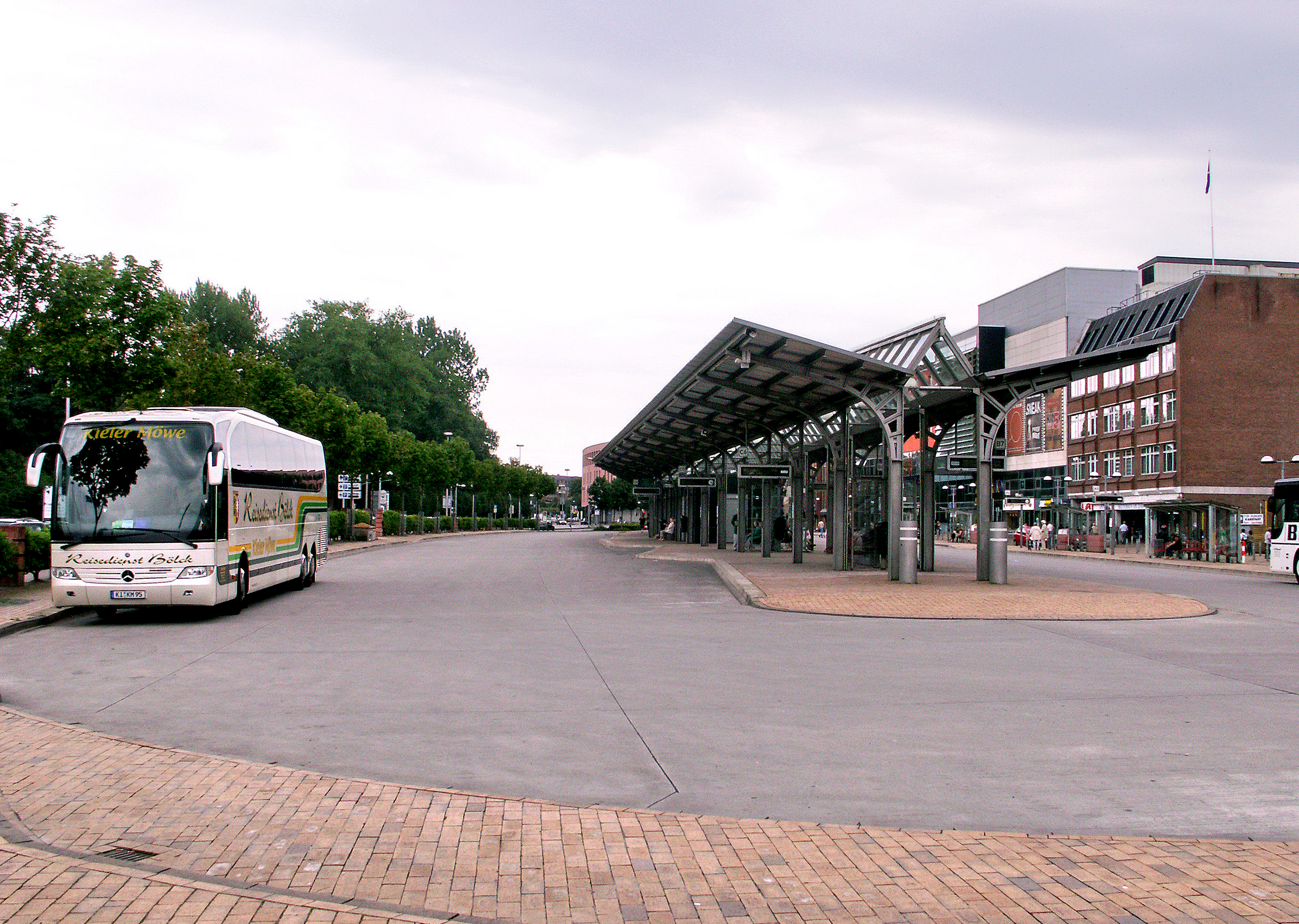 Flensburg bus and rail transport